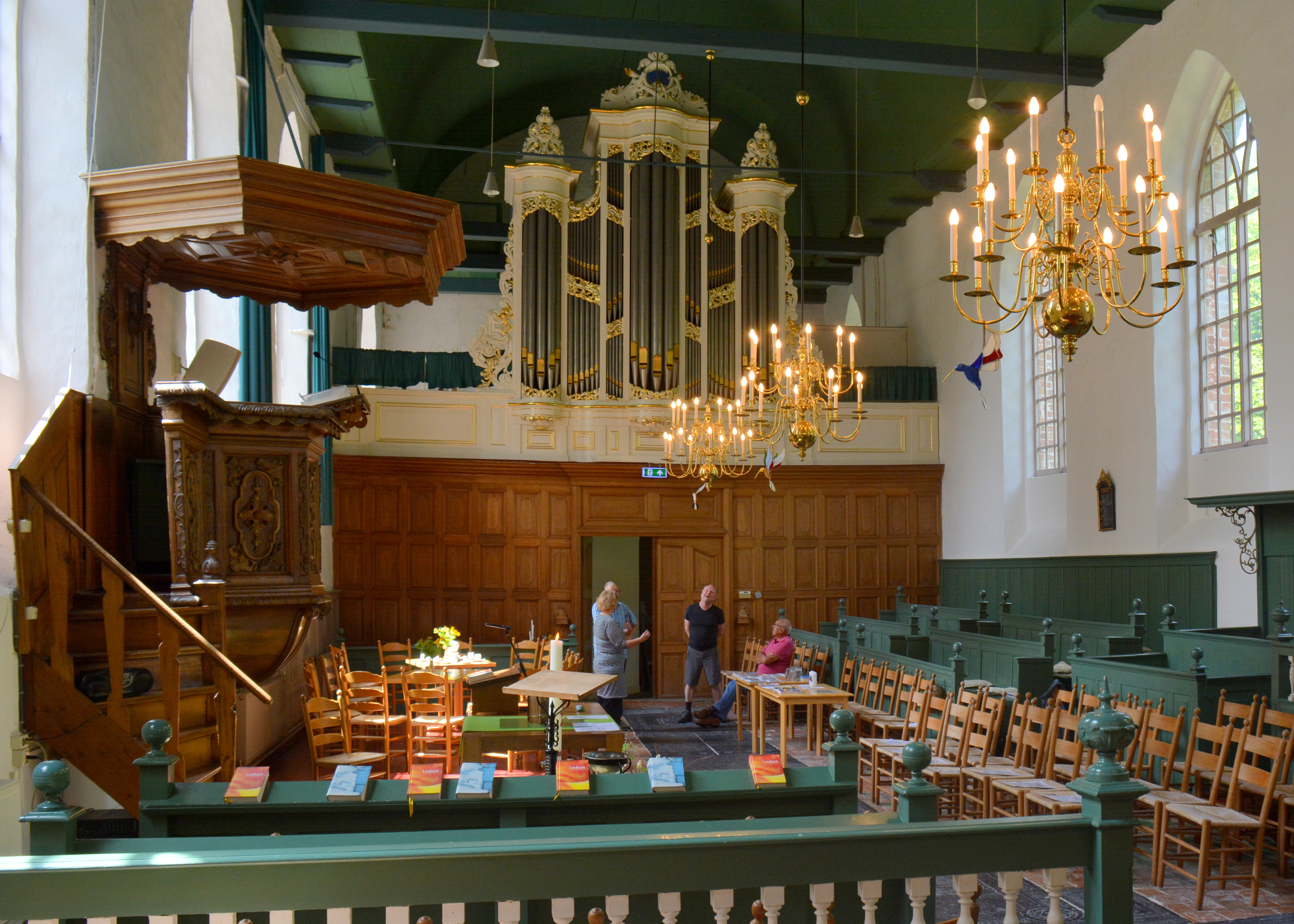 Blije, Saint Nicholas Church, organ and pulpit